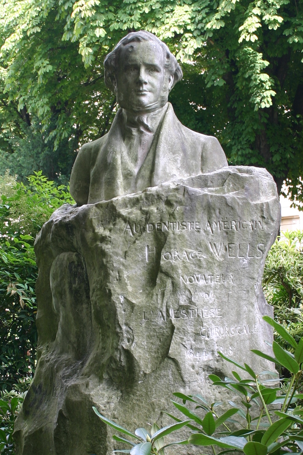 Horace Wells, square Thomas-Jefferson, place des Etats-Unis in Paris. By sculptor René Bertrand-Boutée.